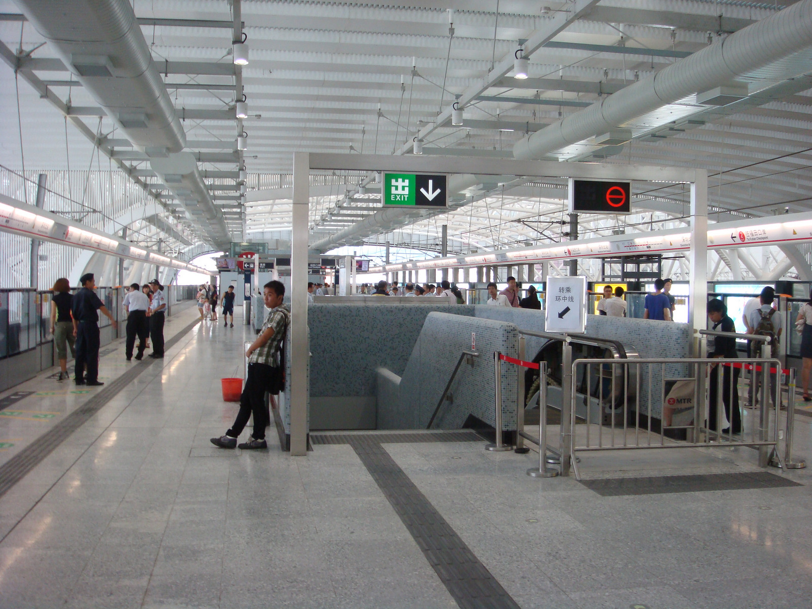 Shenzhen North Station of Longhua Line, Shenzhen Metro.